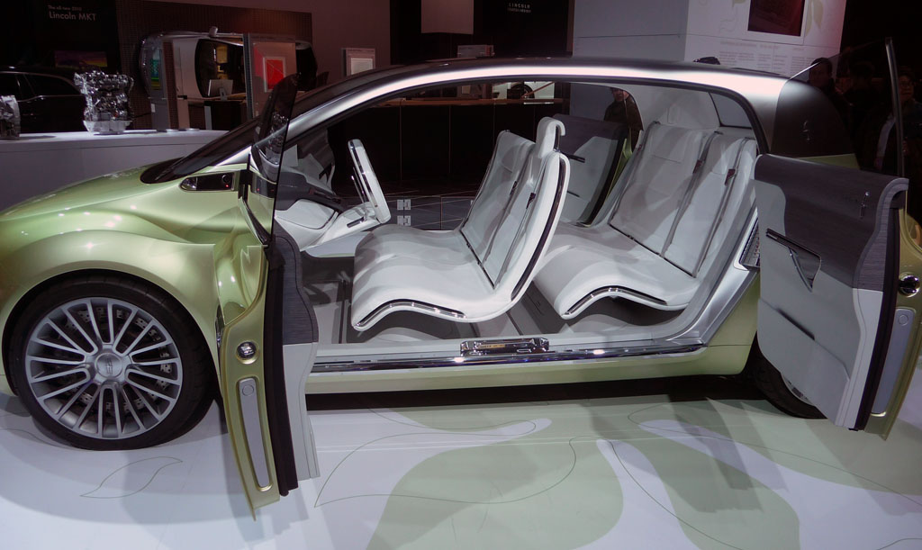 Lincoln concept car with classic "suicide door" configuration. Taken at 2009 North American International Auto Show in Detroit, MI.